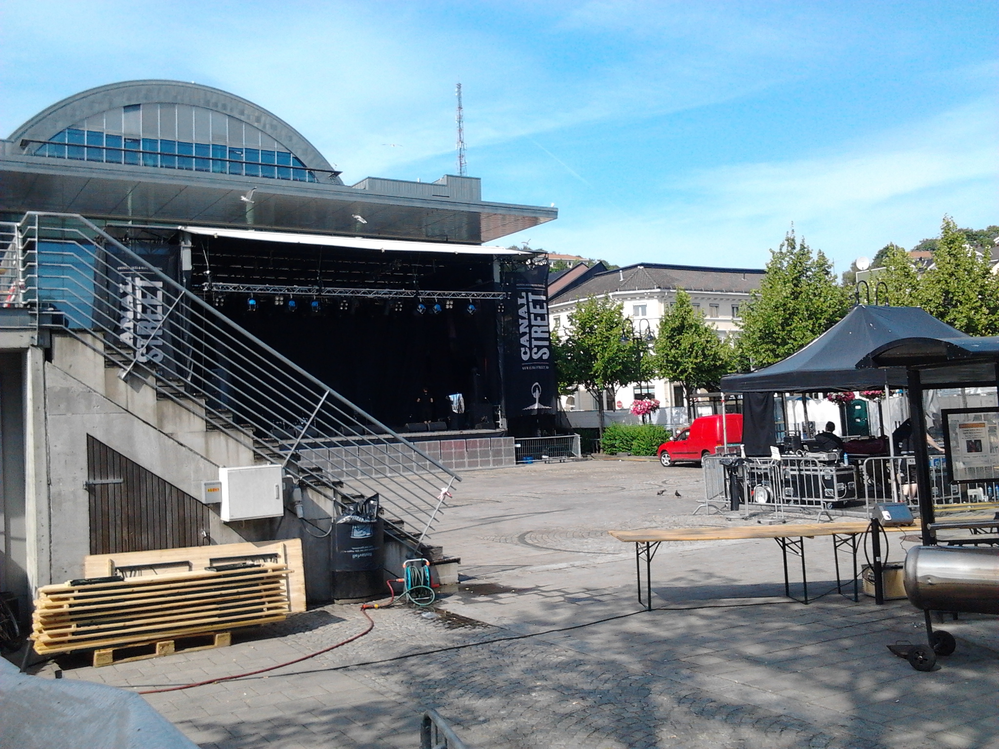 Canal Street festival main stage, Arendal, Norway